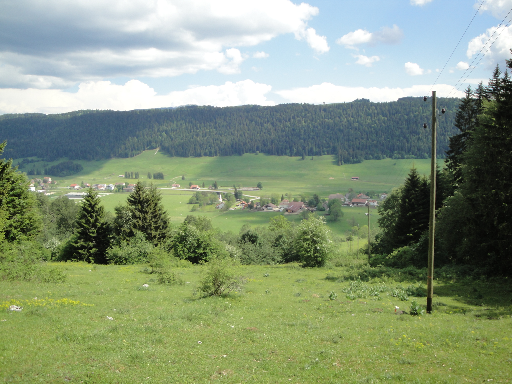 View on Les Verrières (NE), Switzerland